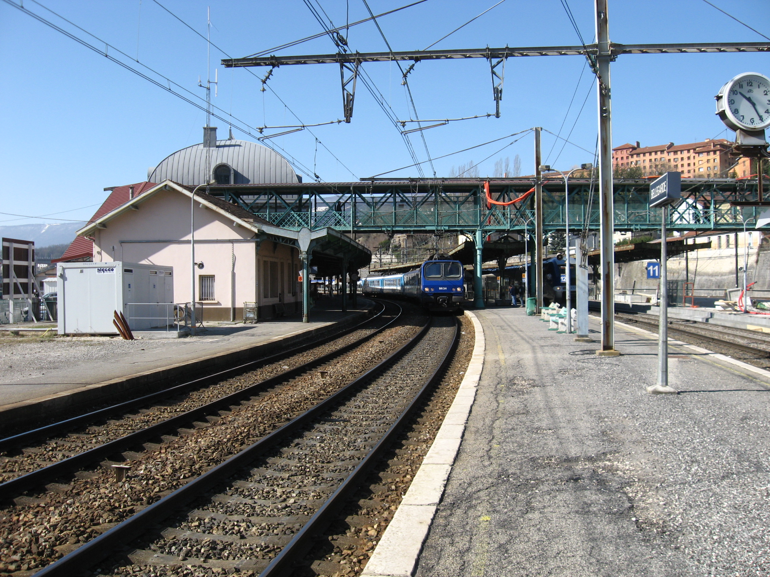 Bellegarde station on the mainline. Is to be modernized.